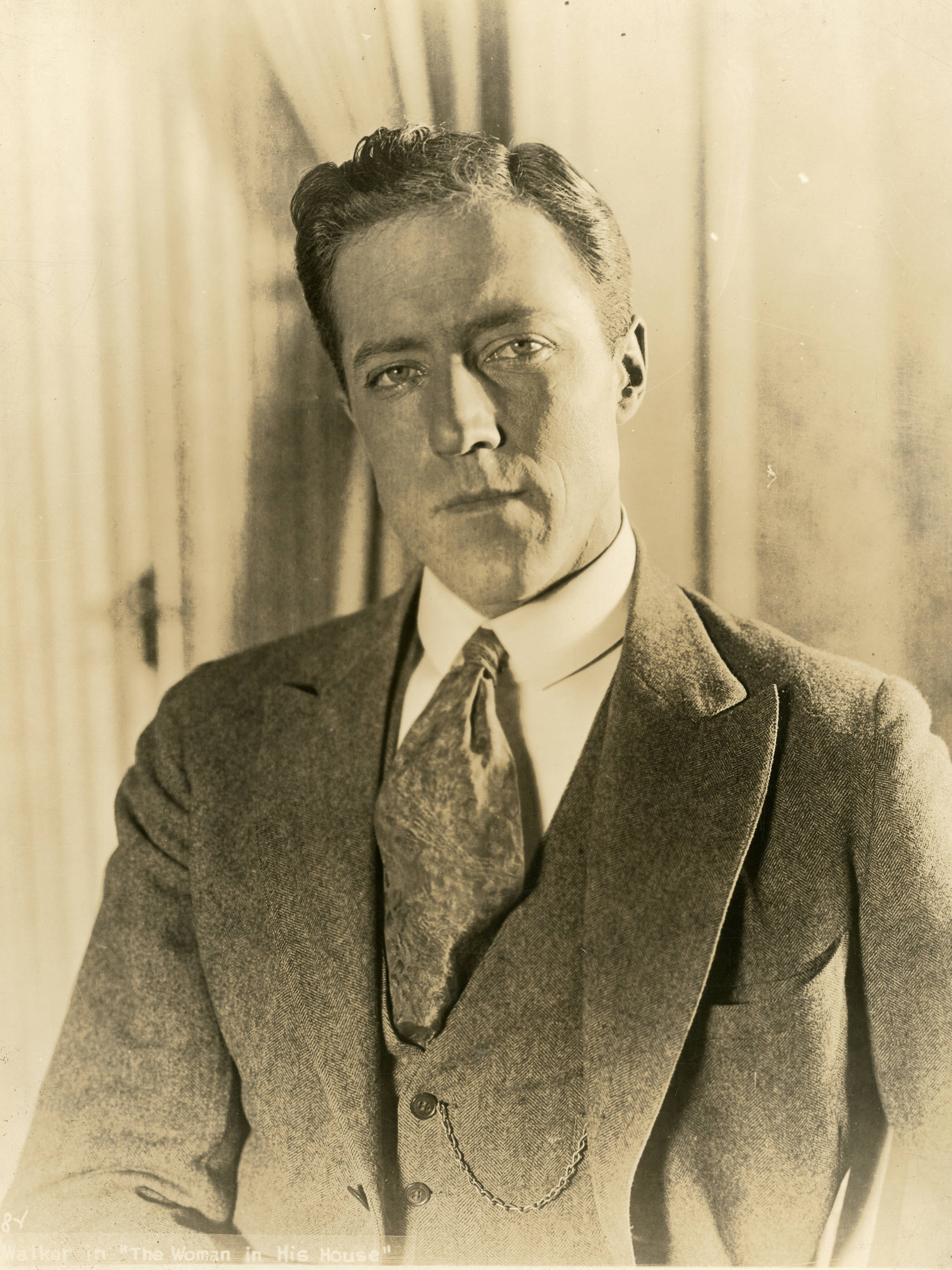 Bob Walker, silent film actor Subjects: actors